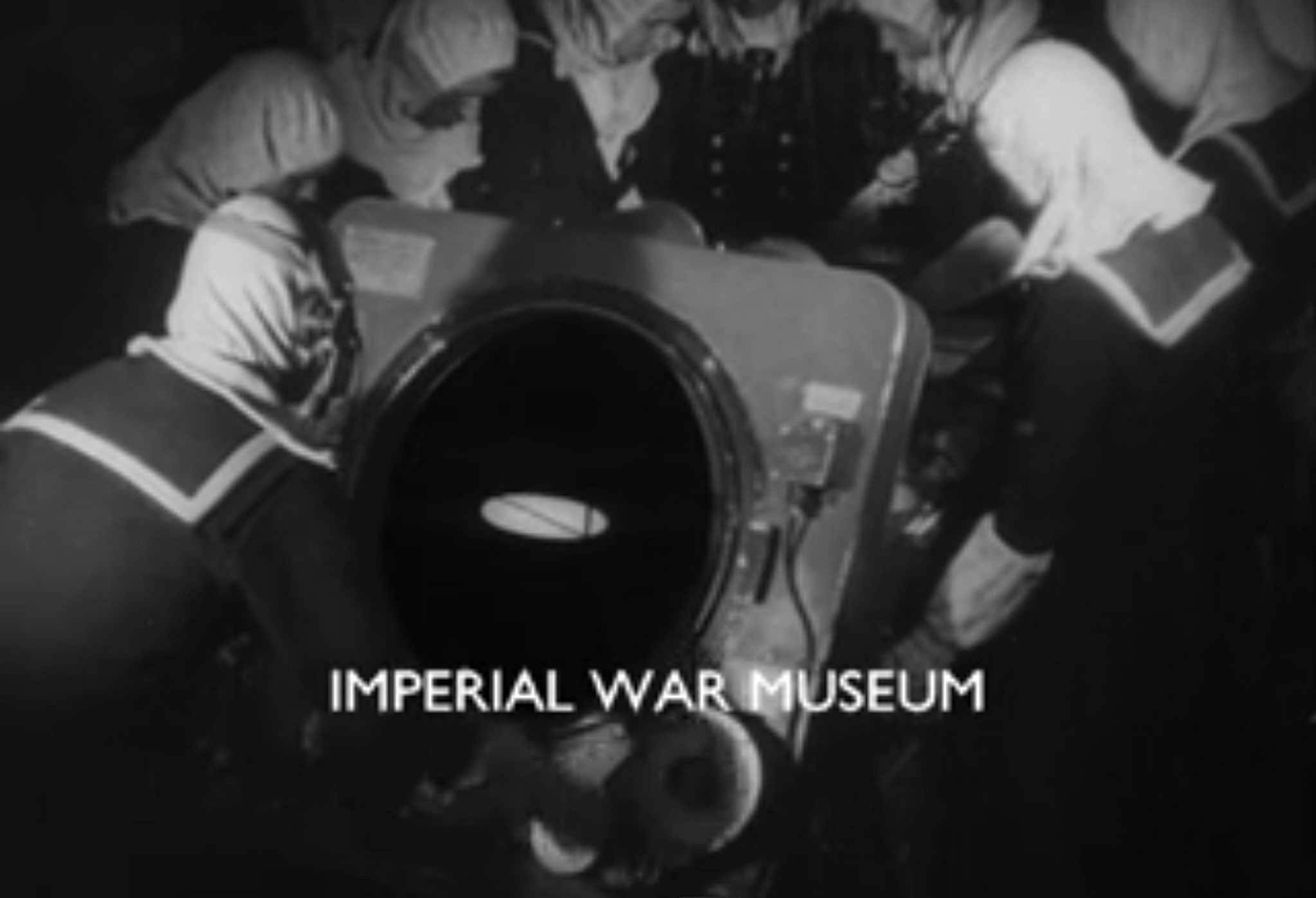 This still from a WWII training film shows the HACS deflection screen operator in the foreground and the other HACS Table operators in the background. The solid line running diagonally through the centre of the ellipse shows the wire aligned with the aircraft's track of approximately 295 degrees; the Deflection Screen operator has his right hand on the Lateral Deflection Control which is aligning the vertical line with the point there the track wire crosses the edge of the ellipse, and he is also using his left hand to align the Vertical Deflection Control and a horizontal wire, (which cannot be seen) so that it also intersects the vertical wire at the edge of the ellipse. When the two wires are properly aligned at the point where the track wire meets the ellipse, the deflection angle is automatically fed to the guns.